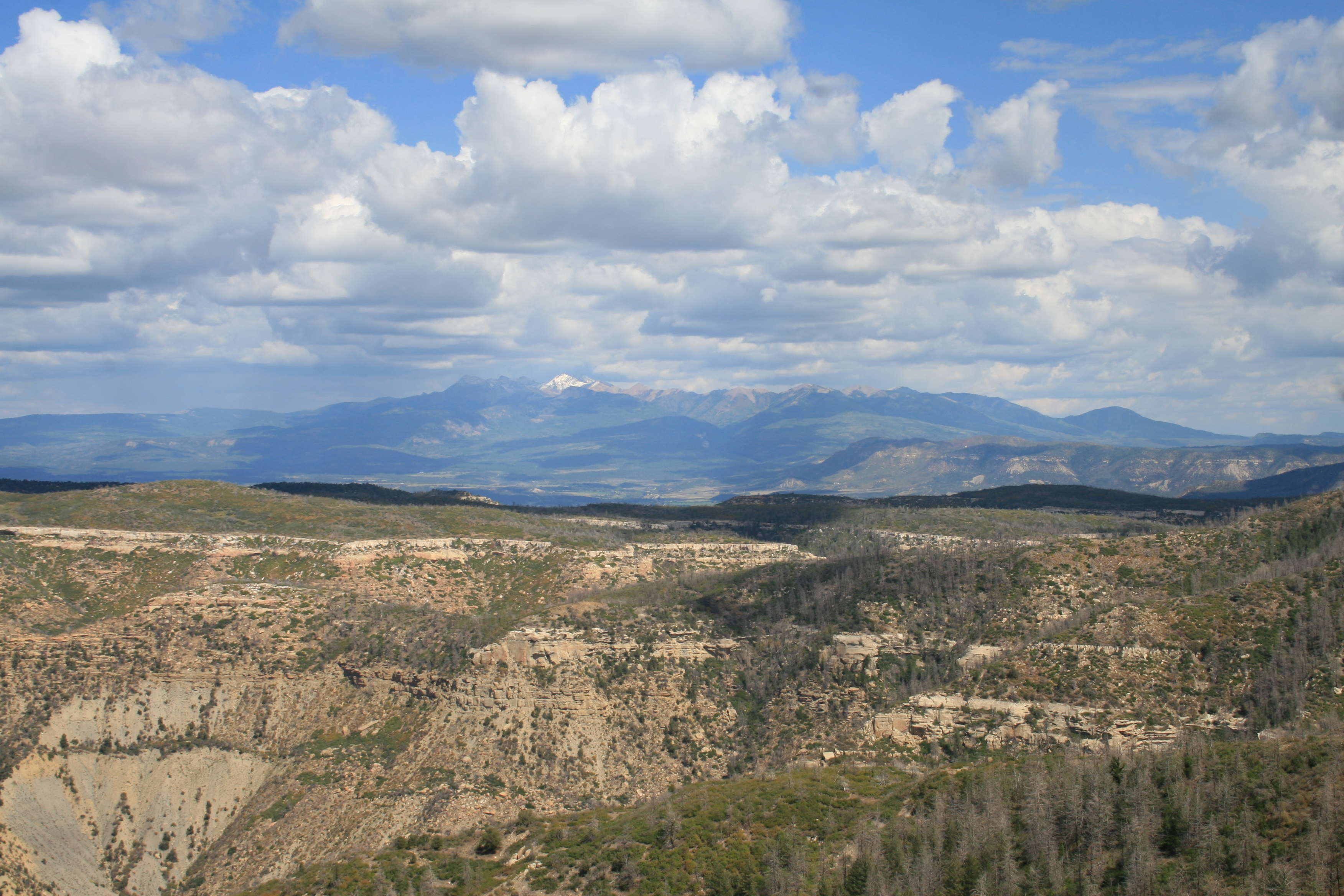 Mesa Verde National Park, Colorado La Plata Mountains as seen from the Park Point Overlook